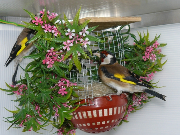 goldfinches nesting in cage